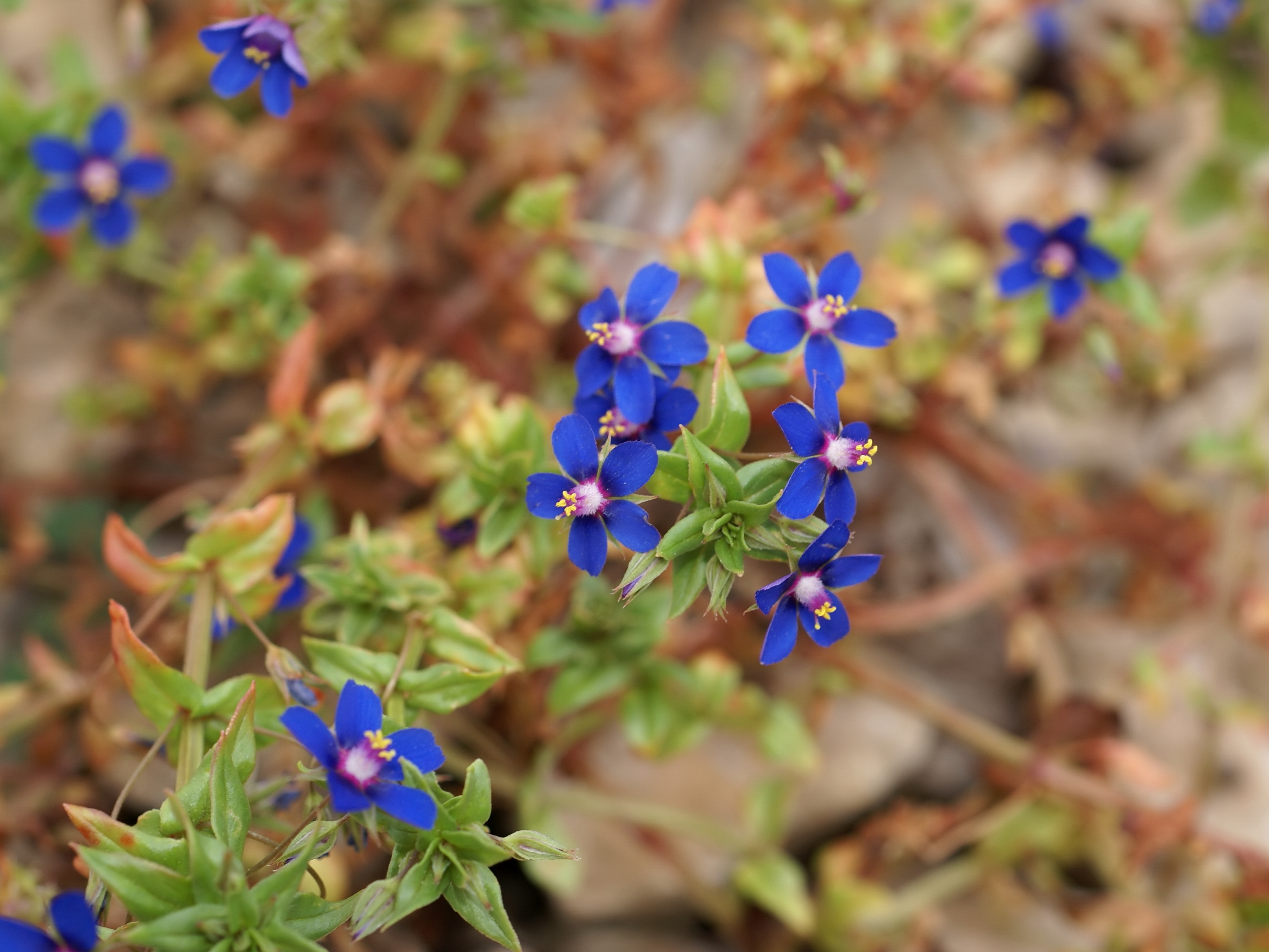 close to el Perelló, Catalonia, Spain